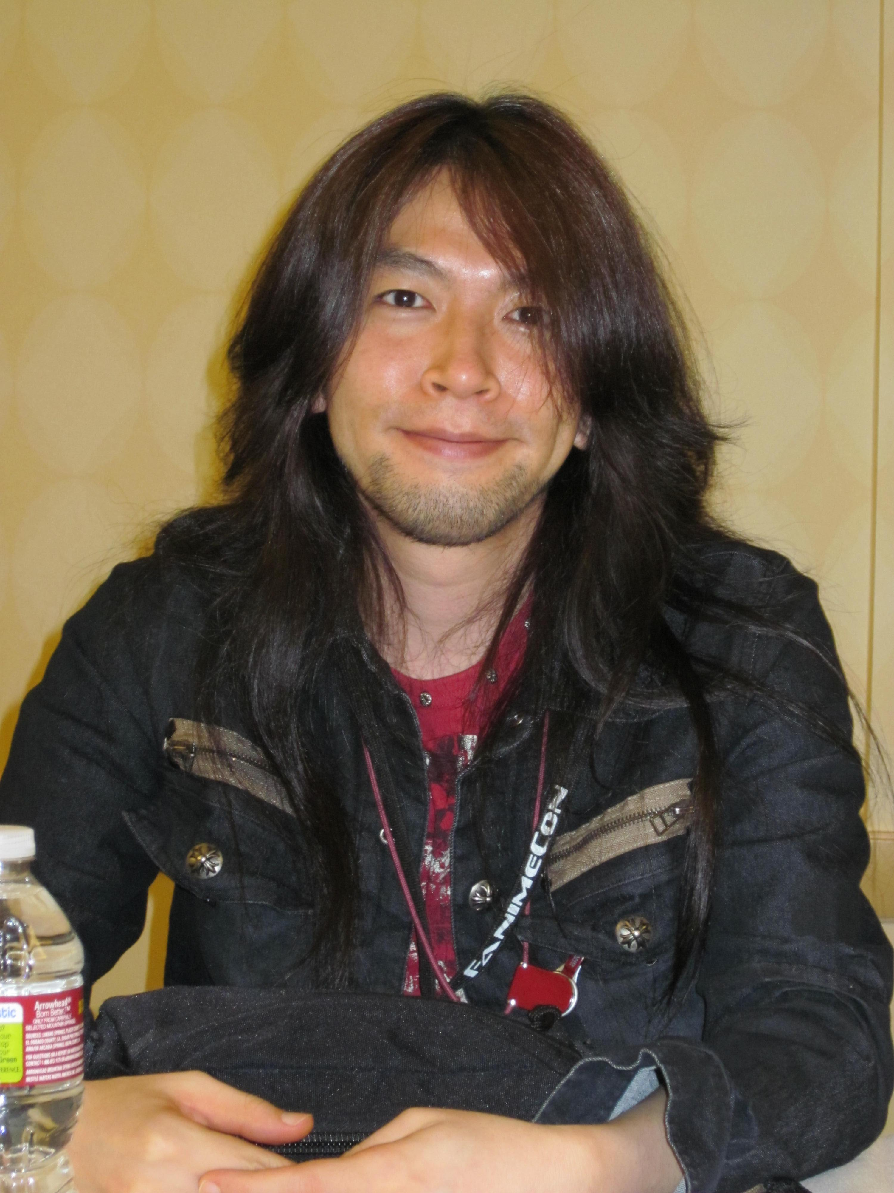 Game designer, composer, producer, and voice actor Daisuke Ishiwatari after a panel at FanimeCon 2010 in San Jose, California.